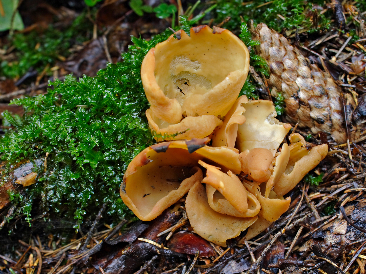 Orange Peel Fungus (Aleuria aurantia) Dysmorodrepanis 14:18, 28 May 2008 (UTC) This is not the orange peel Fungus but a mushroom of the genus Otidea, maybe Otidea onotica Hannibal's back 10:56, 15 Dec 2008 (UTC)